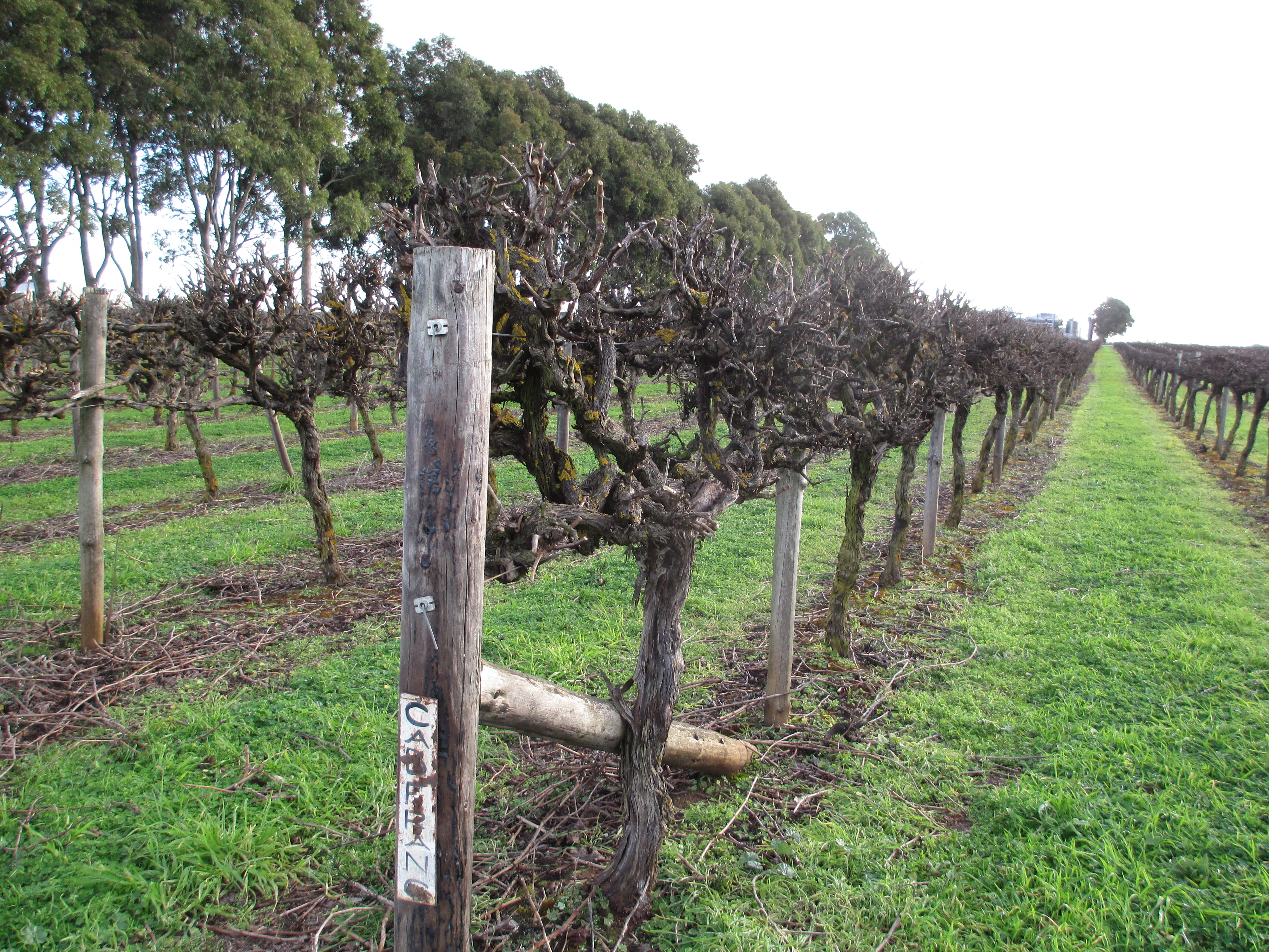 Looking along the rows of vines in Coonawarra in winter. Cabernet Franc grapes, probably belonging to Di Giorgio.